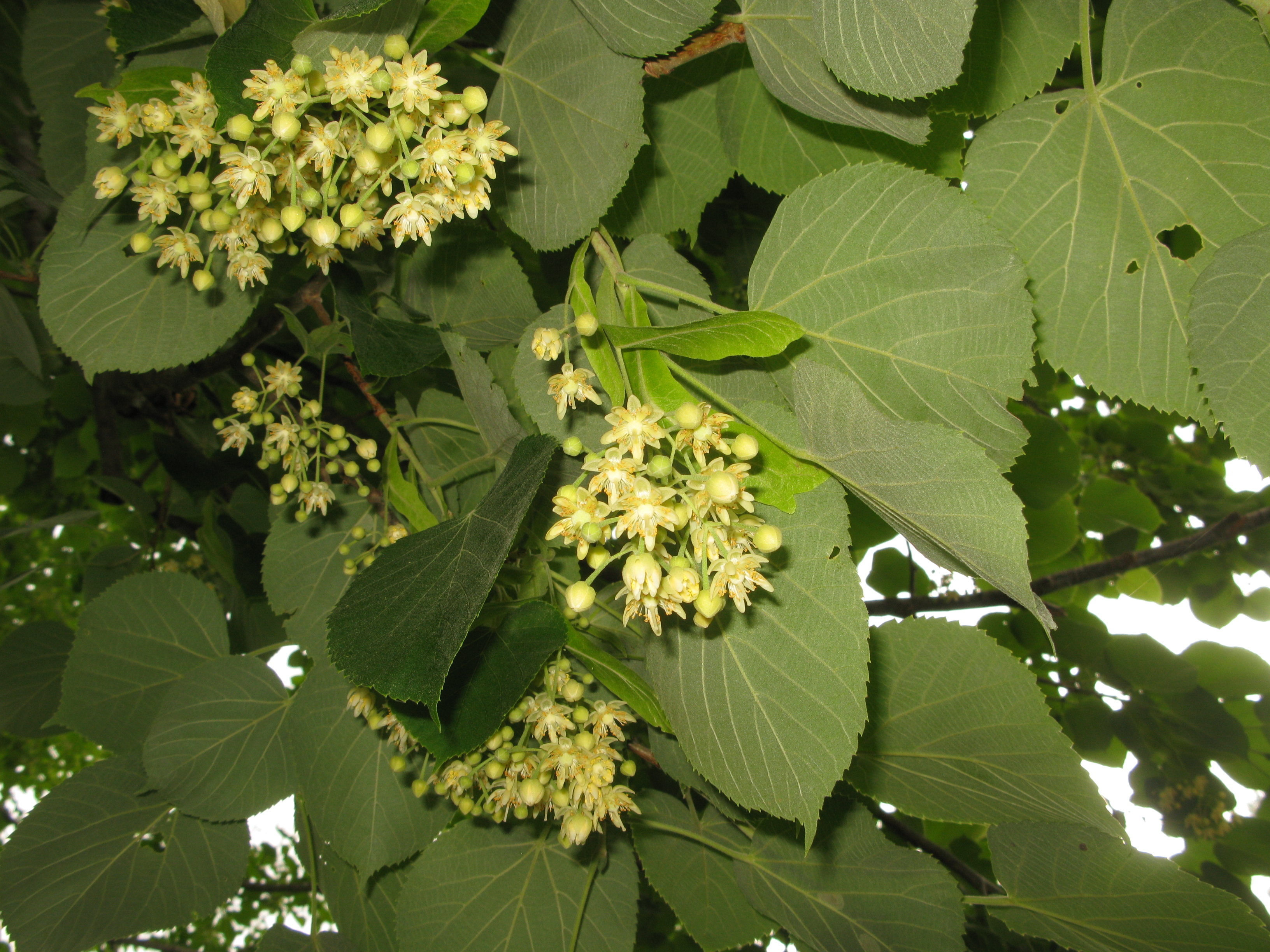 Tilia maximowicziana, Aizu area, Fukushima pref.,Jpan